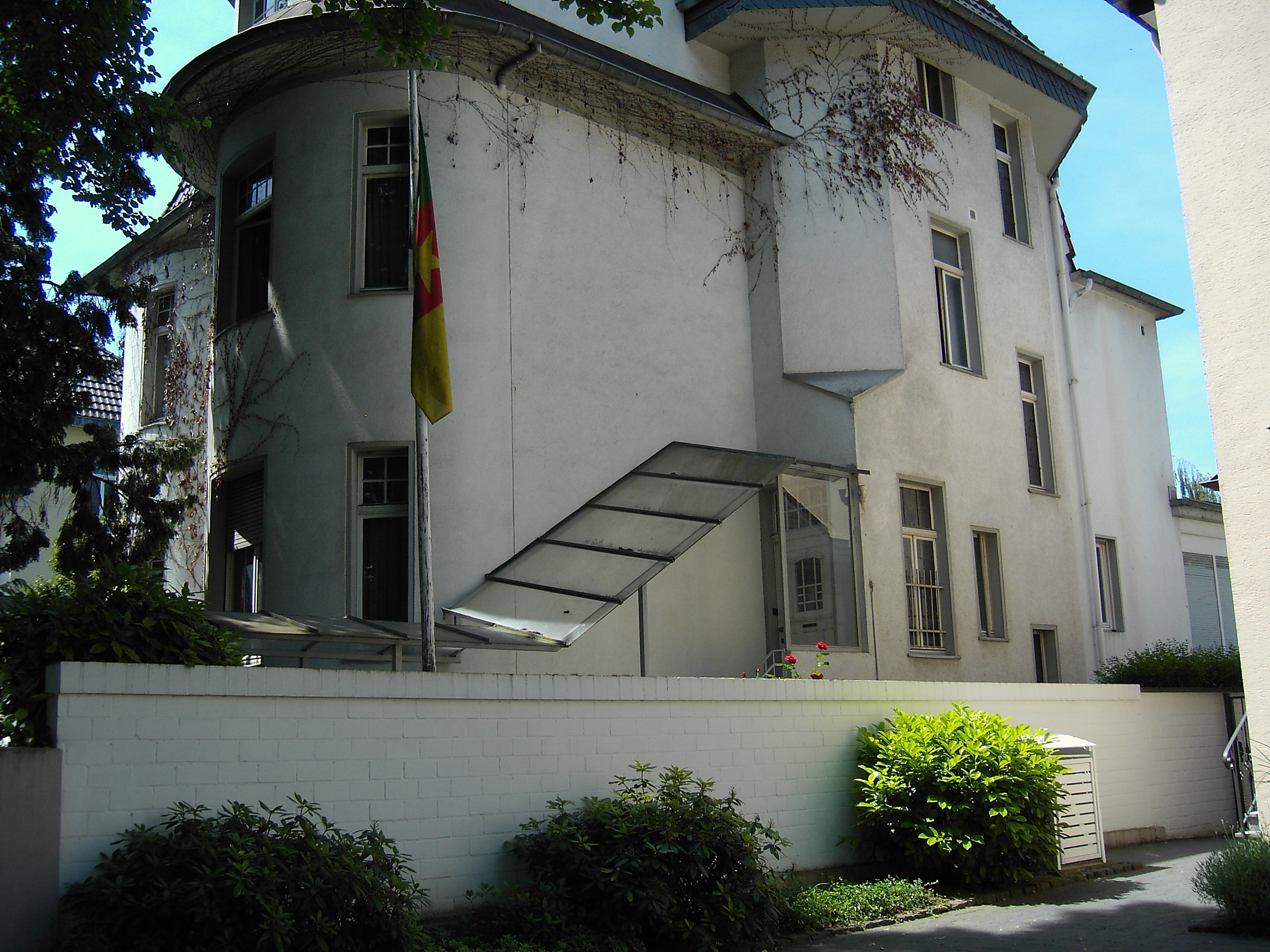 Residence of the Ambassator of the Republic of Cameroon in Bonn-Bad Godesberg (till 2009).